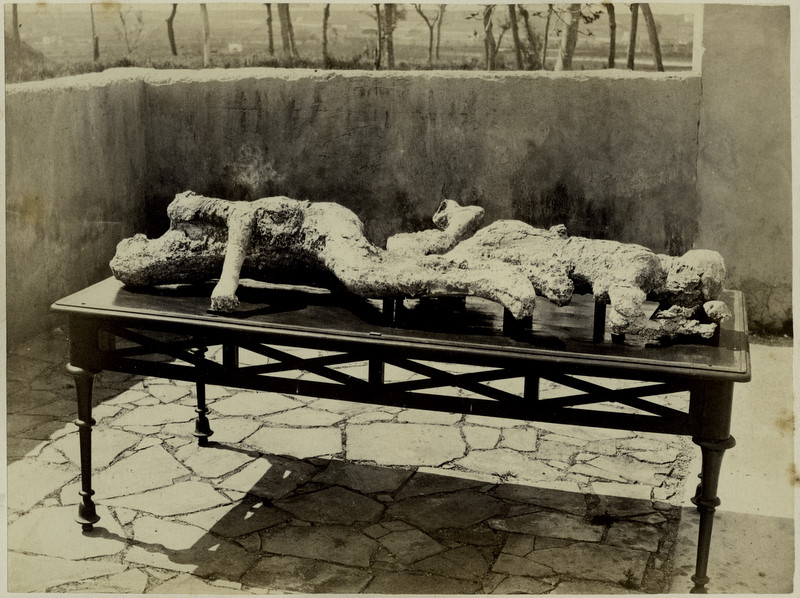 Giorgio Sommer (1834-1914) - Casts of corpses found in Pompeii (1863).